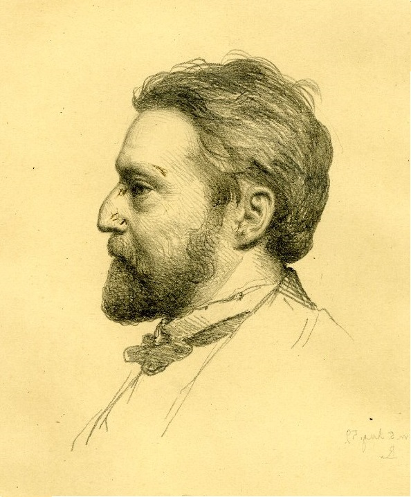 Portrait of August Riedel